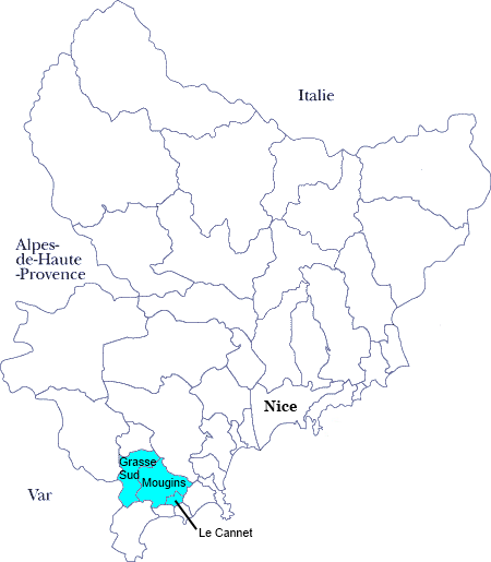 Map of Alpes Maritimes' 9th constituency, France (2010 redistricting, into force from 2012 French legislative elections).